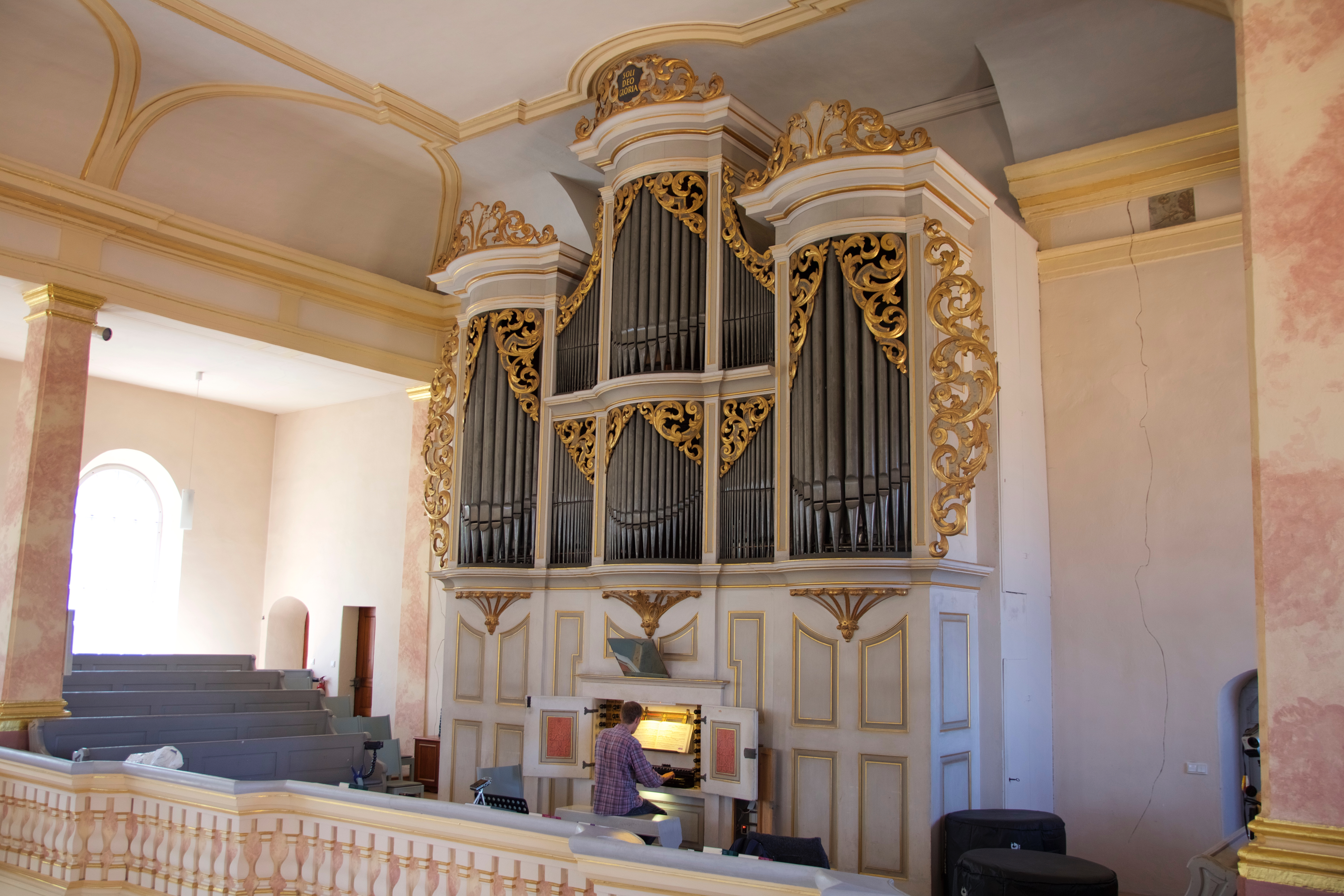 The 1730 Gottfried Silbermann organ of St George's Church, Glauchau (Germany) as seen from the side gallery.